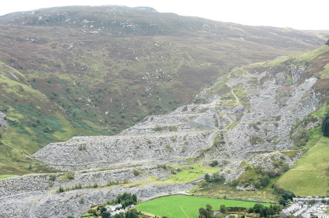 The Rhiw Fachno Quarry aka Chwarel Cwm The history of this interesting quarry, together with many rare photos, are found on the following link